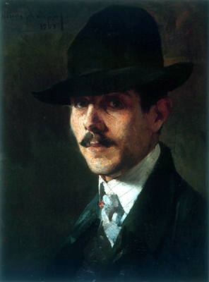 Nikolaos Lytras, The painter Oumvertos Argyros